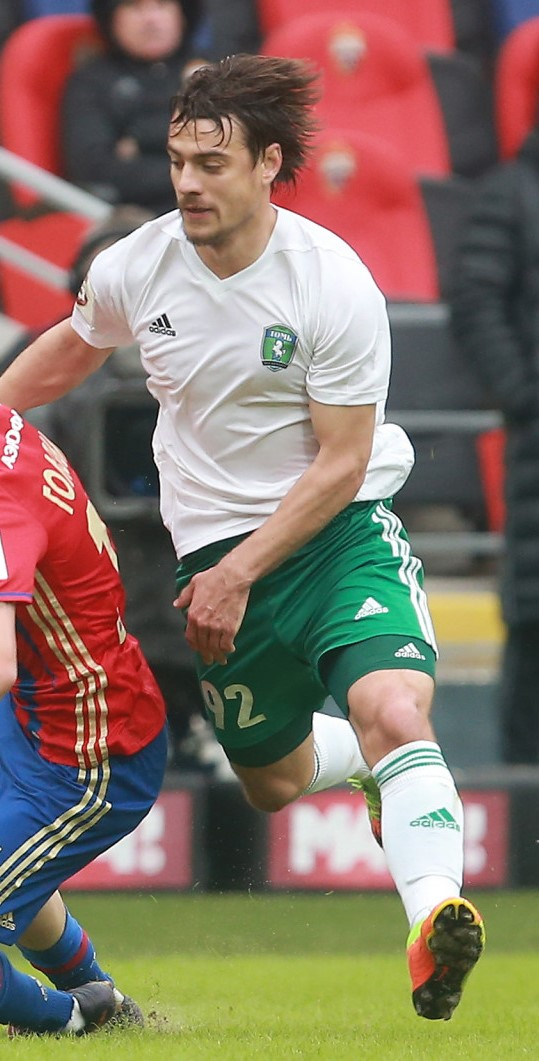 Valeriu Ciupercă